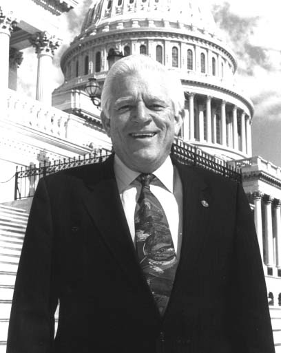 Depicted person: Carlos Romero Barceló – fifth Governor of the Commonwealth of Puerto Rico